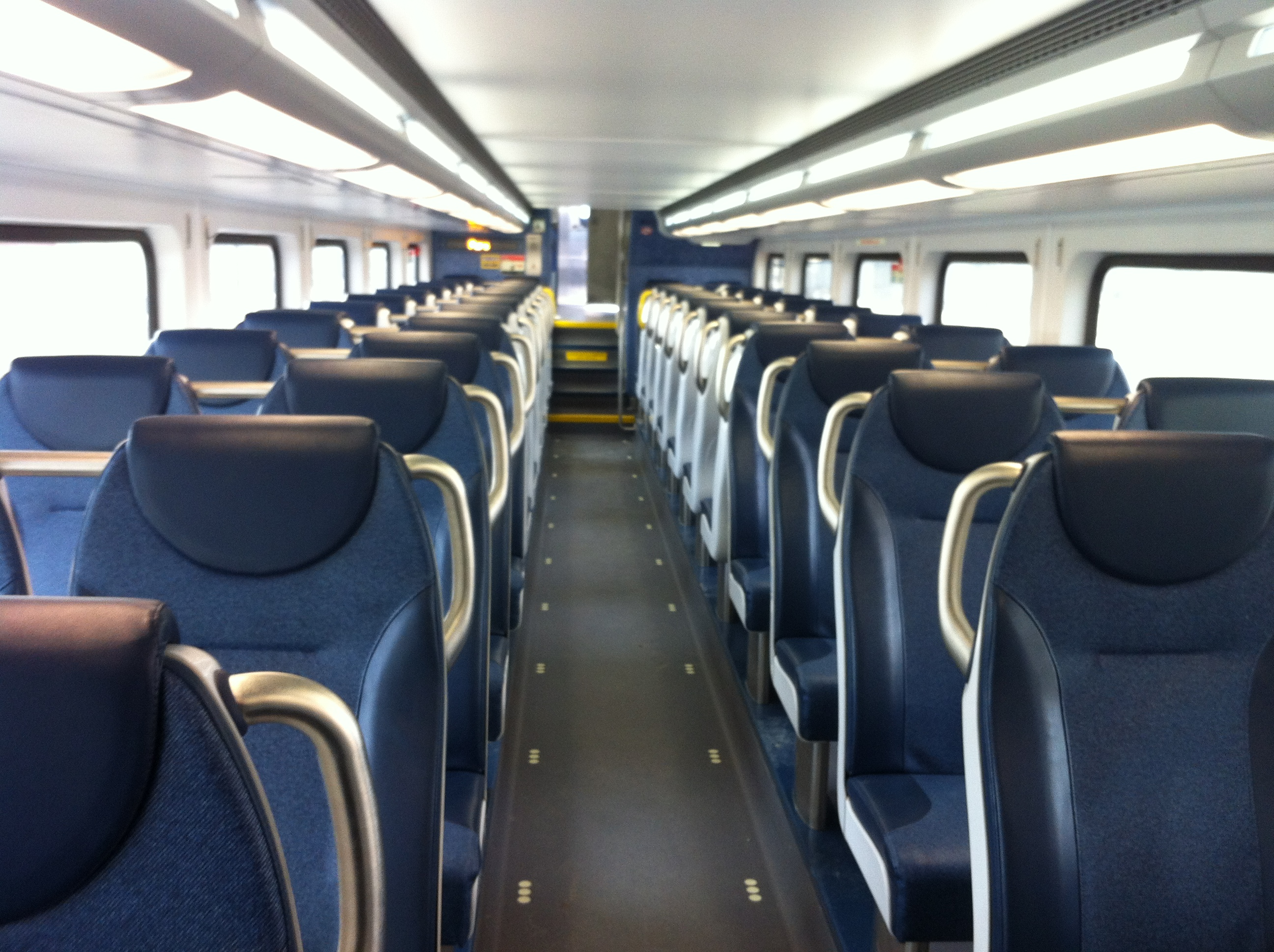 The interior of an AMT Train on the Blainville-Saint-Jérôme Line.